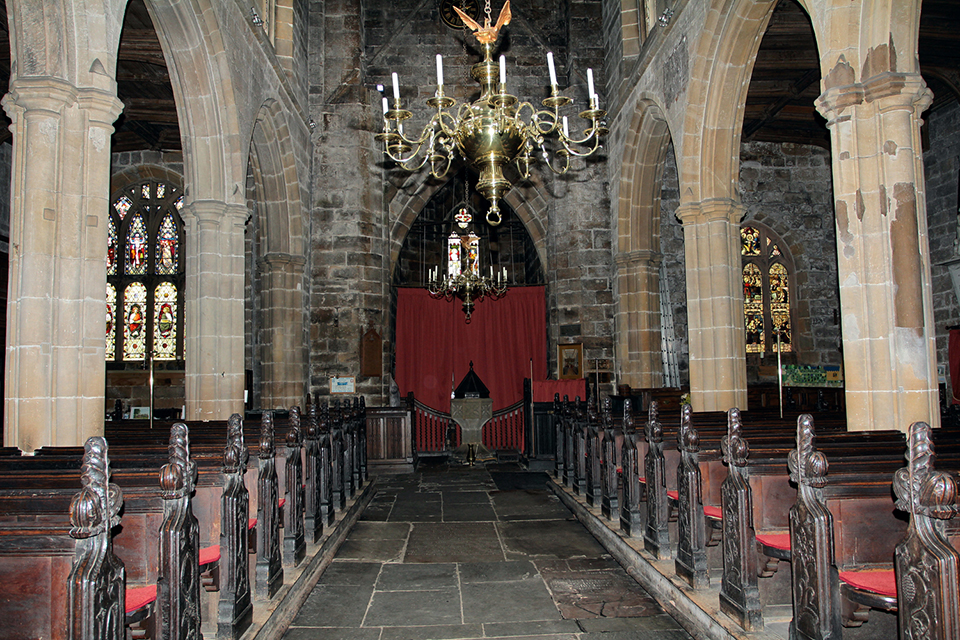 Looking west in the nave towards the font